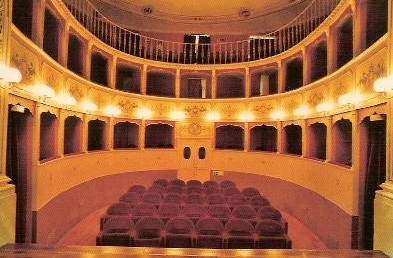 Theatre